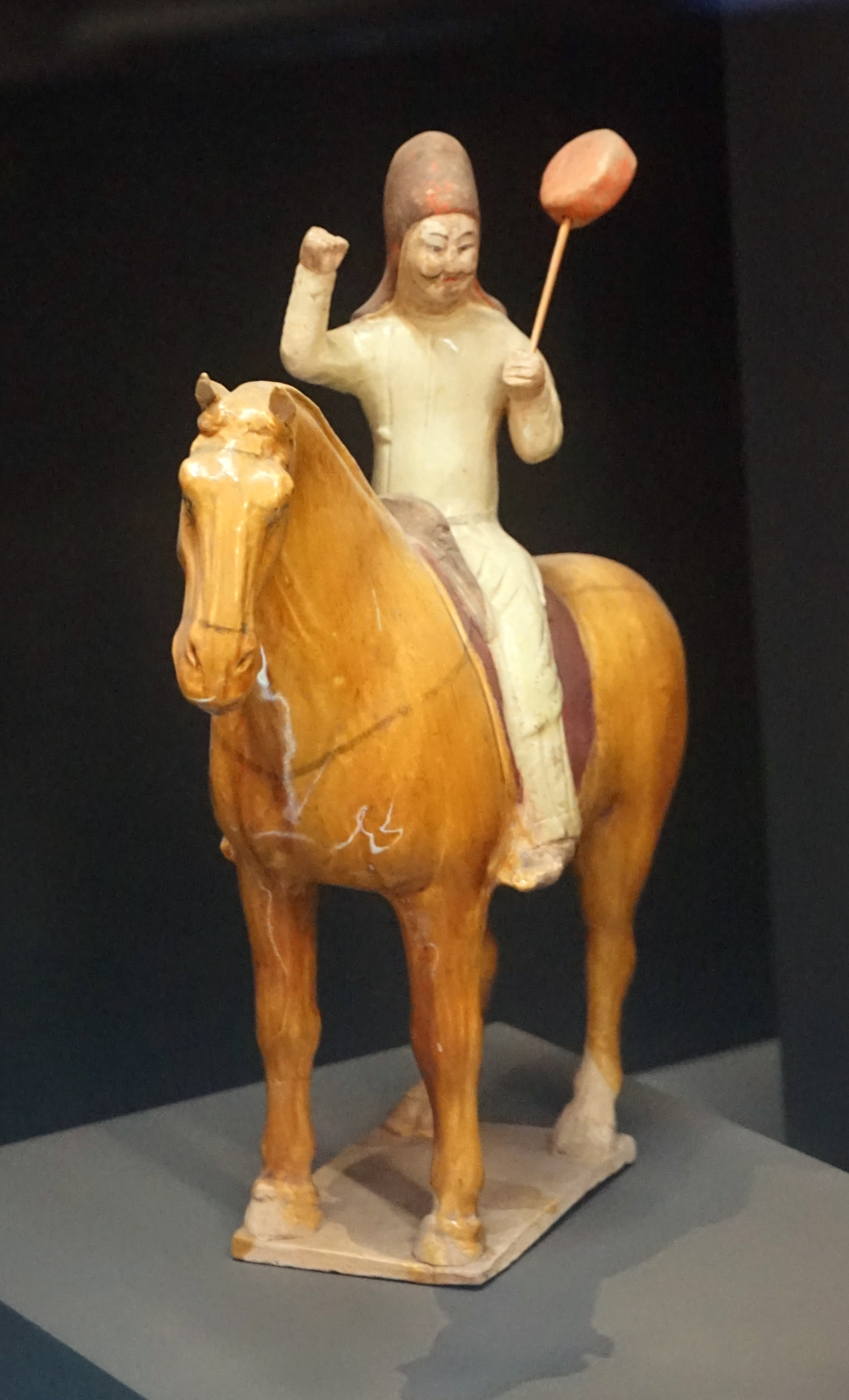 Tri-colored Horserider. Tang Dynasty. Unearthed from Li Hui李晦's tomb， Gaoling County, in 1995. 骑俑头戴黑色风帽，上着豆青色圆立领窄袖长袍，下穿豆青色裳，腰系黑带，足下黑履。左手橘黄色团扇。一级文物。